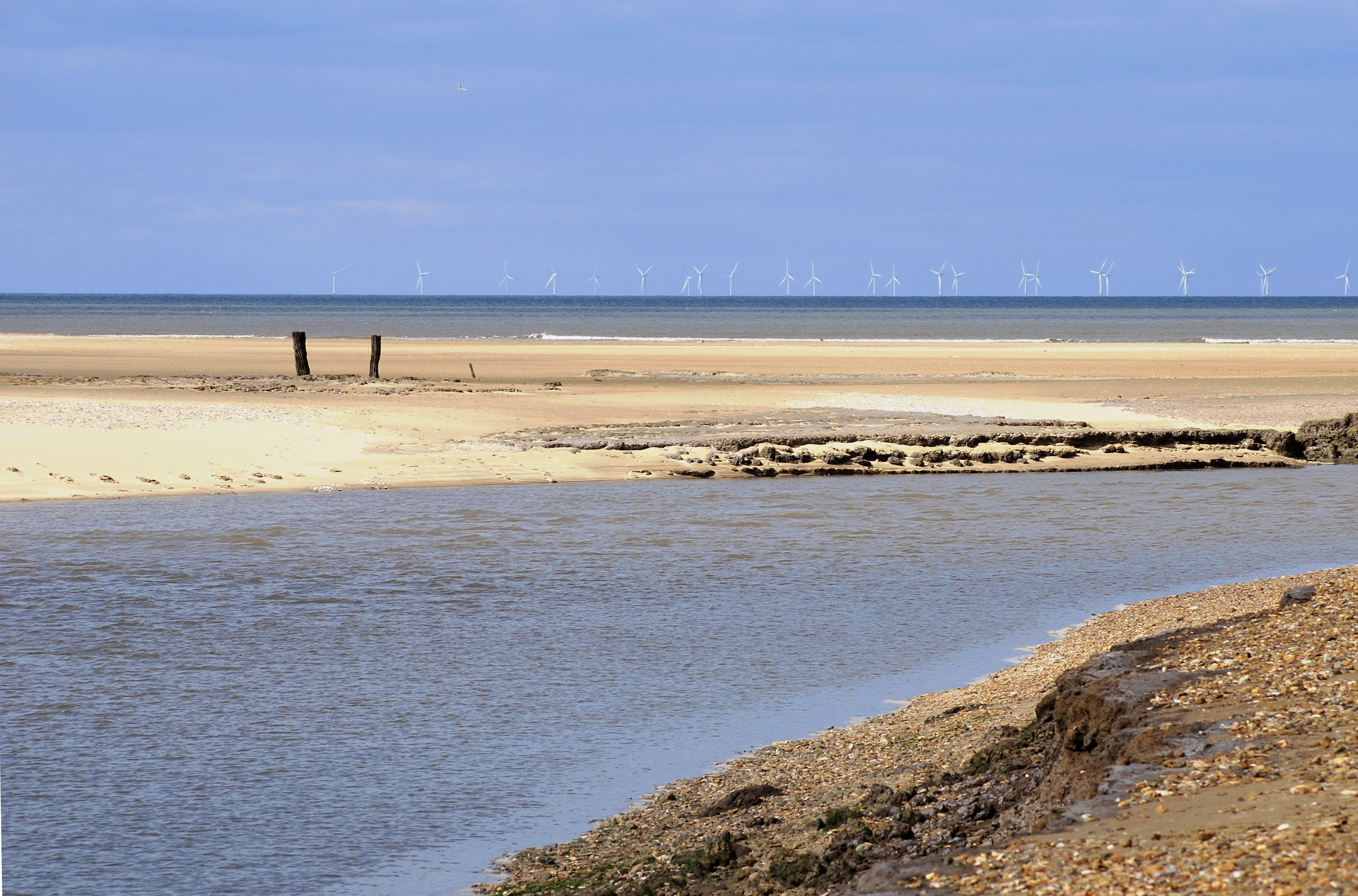 View north from the Norfolk coast near Brancastor. Wind turbines in view.